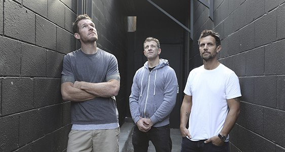 Wakrat